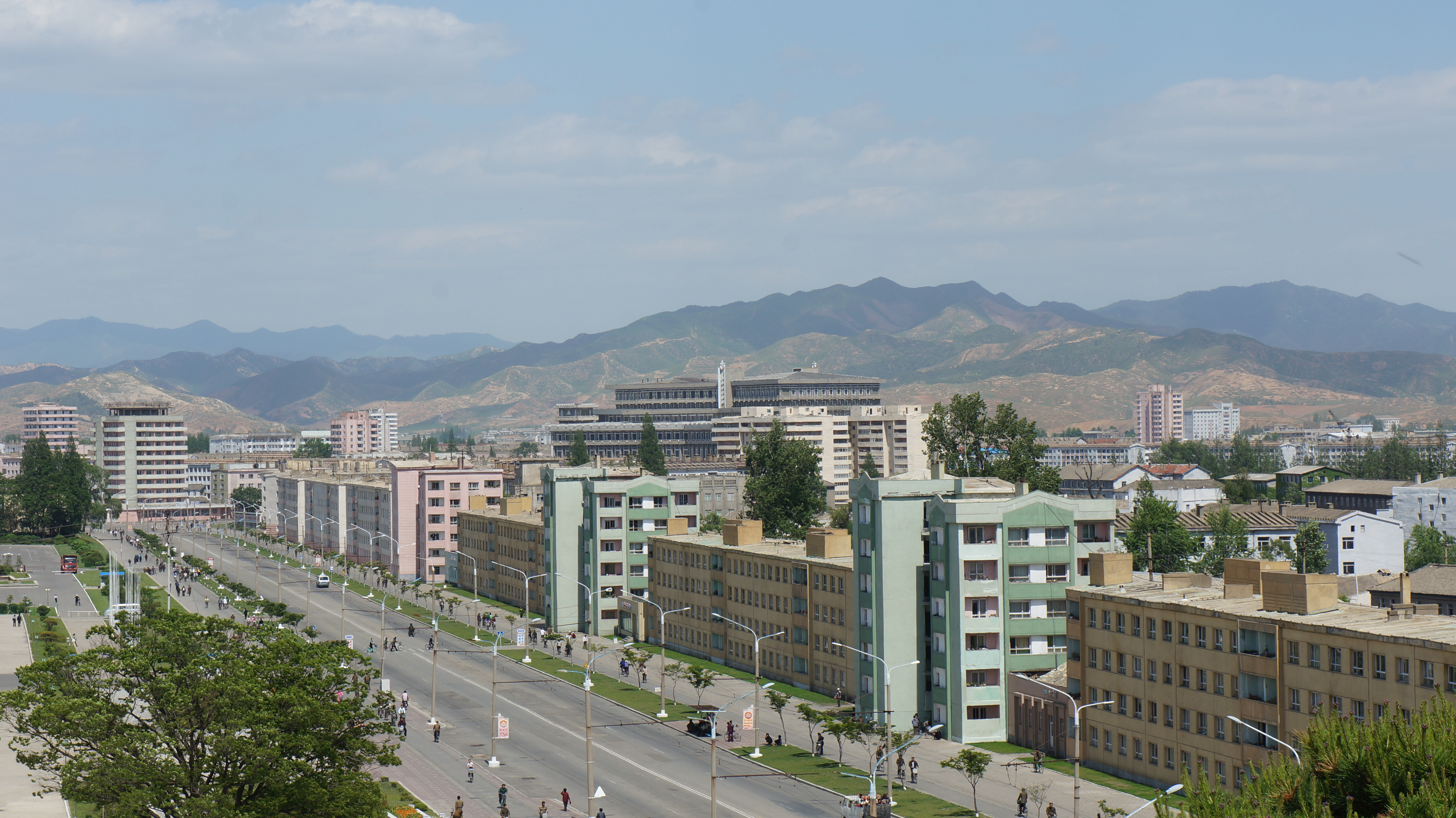 A view of central Hamhung, North Korea.